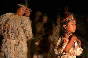 macushi